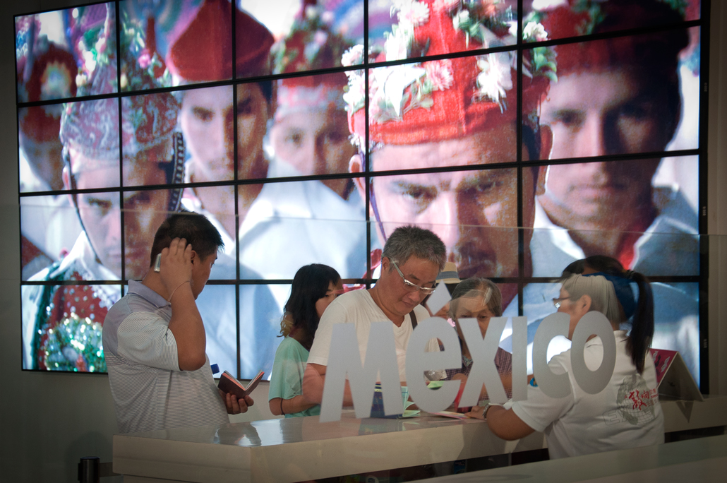 Tourism module of the Pavilion of Mexico at Expo 2010 Shanghai